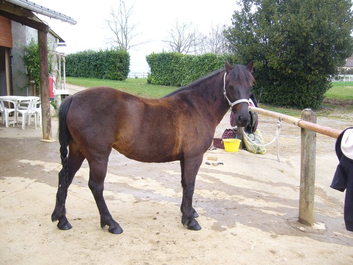 Ninja du Cassou, landais pony female, propriety of Julie Pecqueux